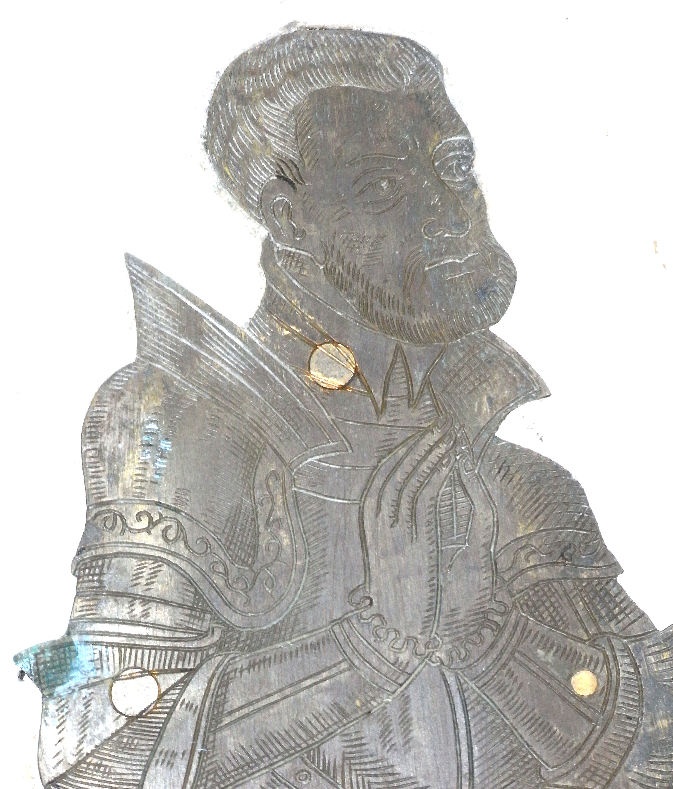 Detail of 16th.c. monumental brass of (James?) Coffin, lord of the manor of Monkleigh, Devon. Monkleigh Church, north wall of chancel